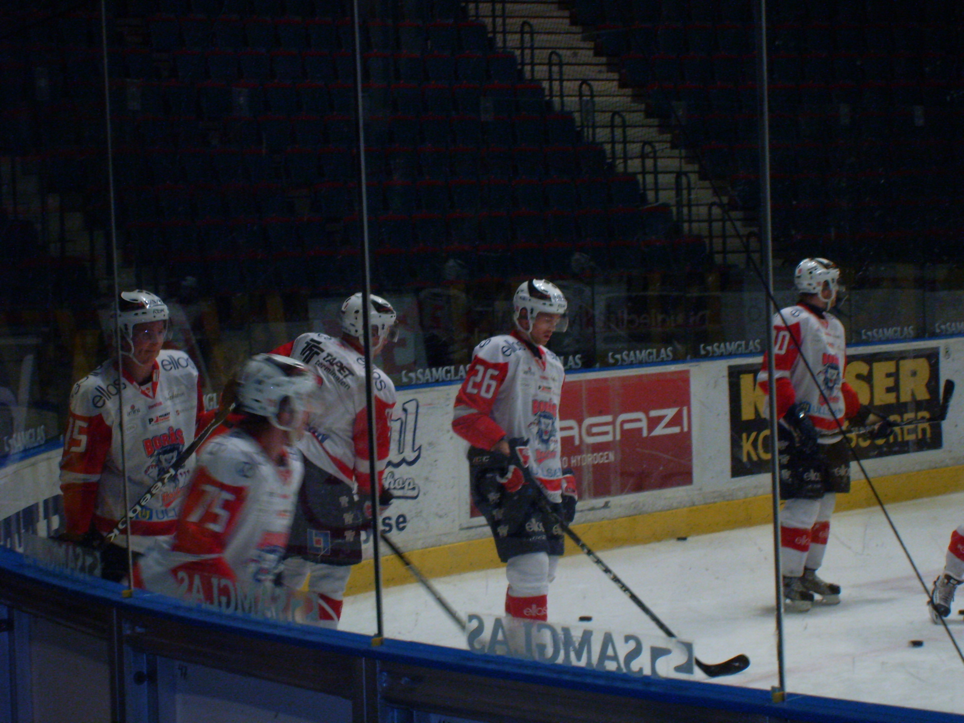 Ice hockey players from Borås HC.